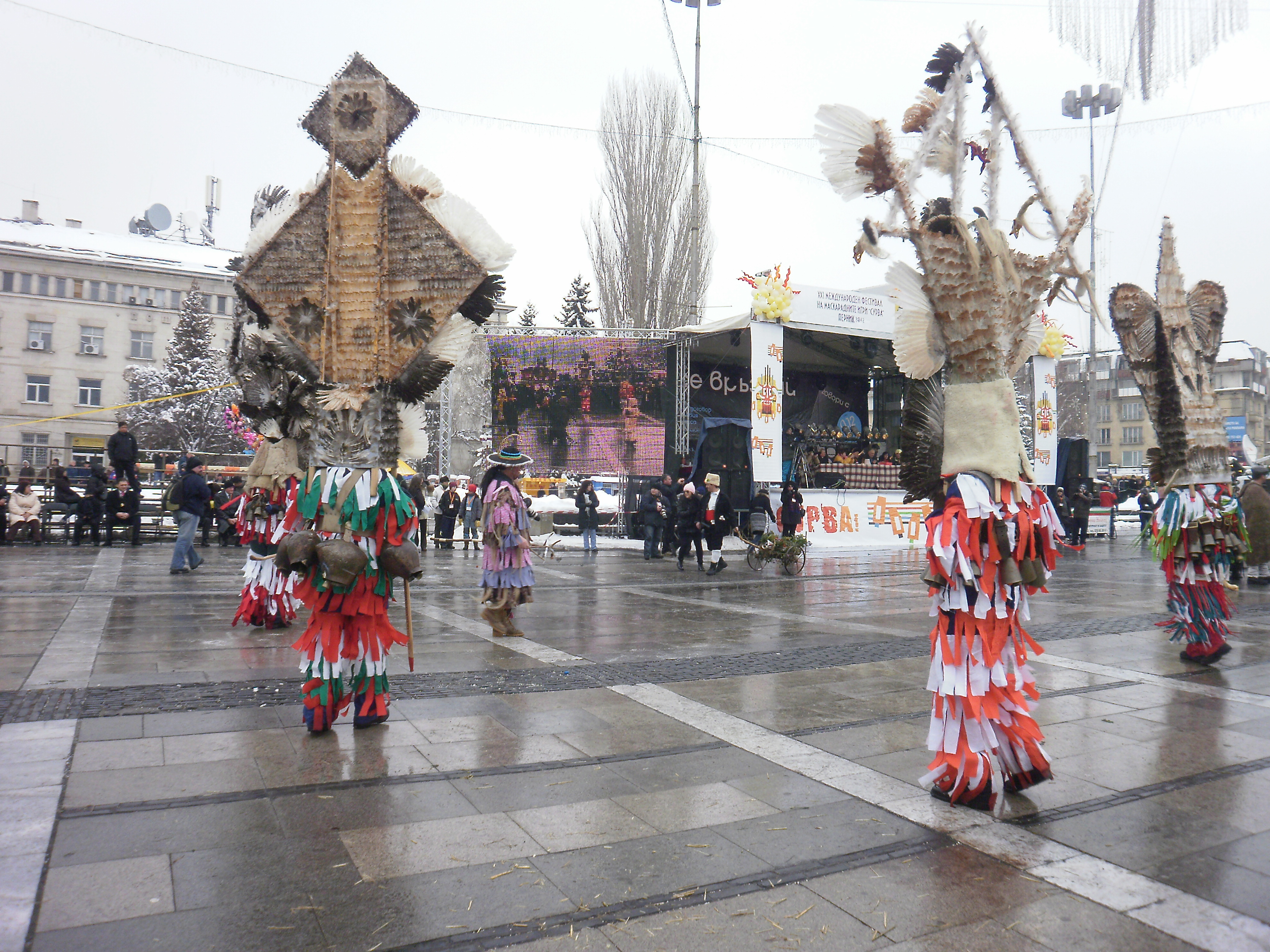 Kukeri from Begunovtsi, Pernik Province - XXI International festival of masquerade games "Surva", Pernik 2012.